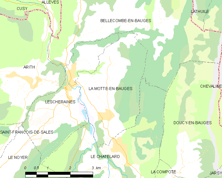 Map of French municipality